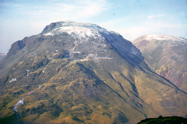 Great Gable, Cumbria, England. Photo taken in 1962.